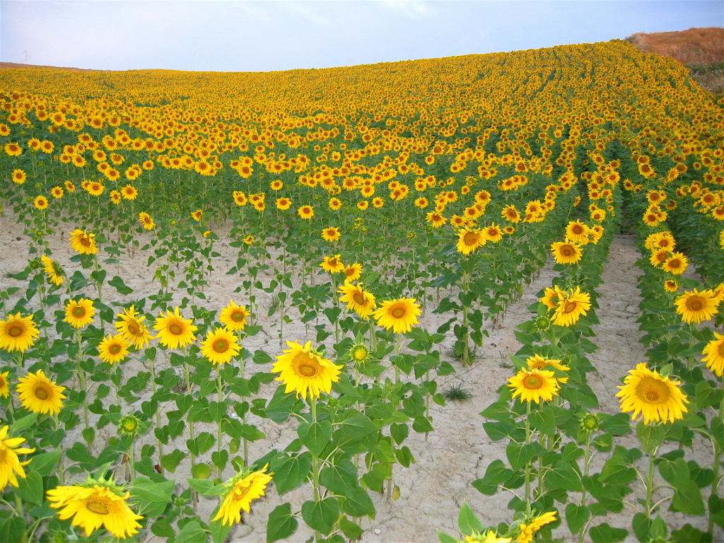 Sunflower field in Spain; after Cizur Menor, a carpet of sun